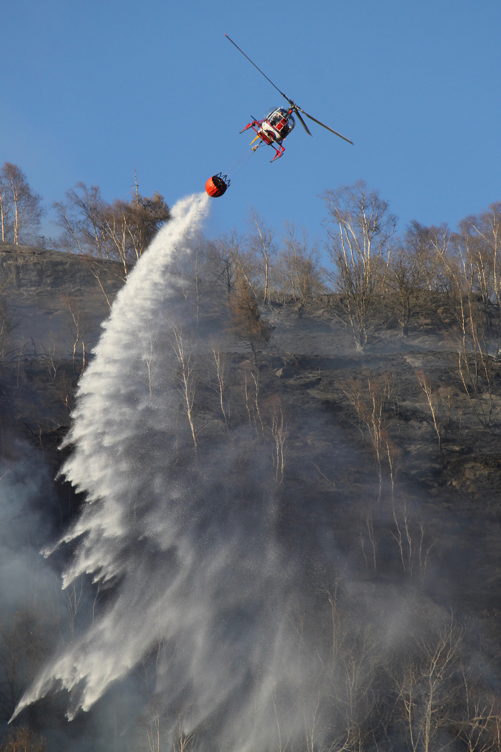 HB-ZMV of Heli-TV dropping water on the mountain above Tegna.